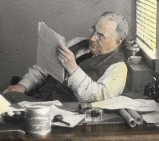 "The Archivist at Work", 1941